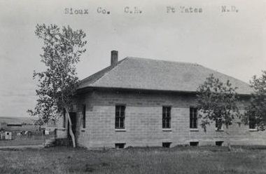 Photographic postcard of Former Sioux County Courthouse, Ft. Yates, North Dakota